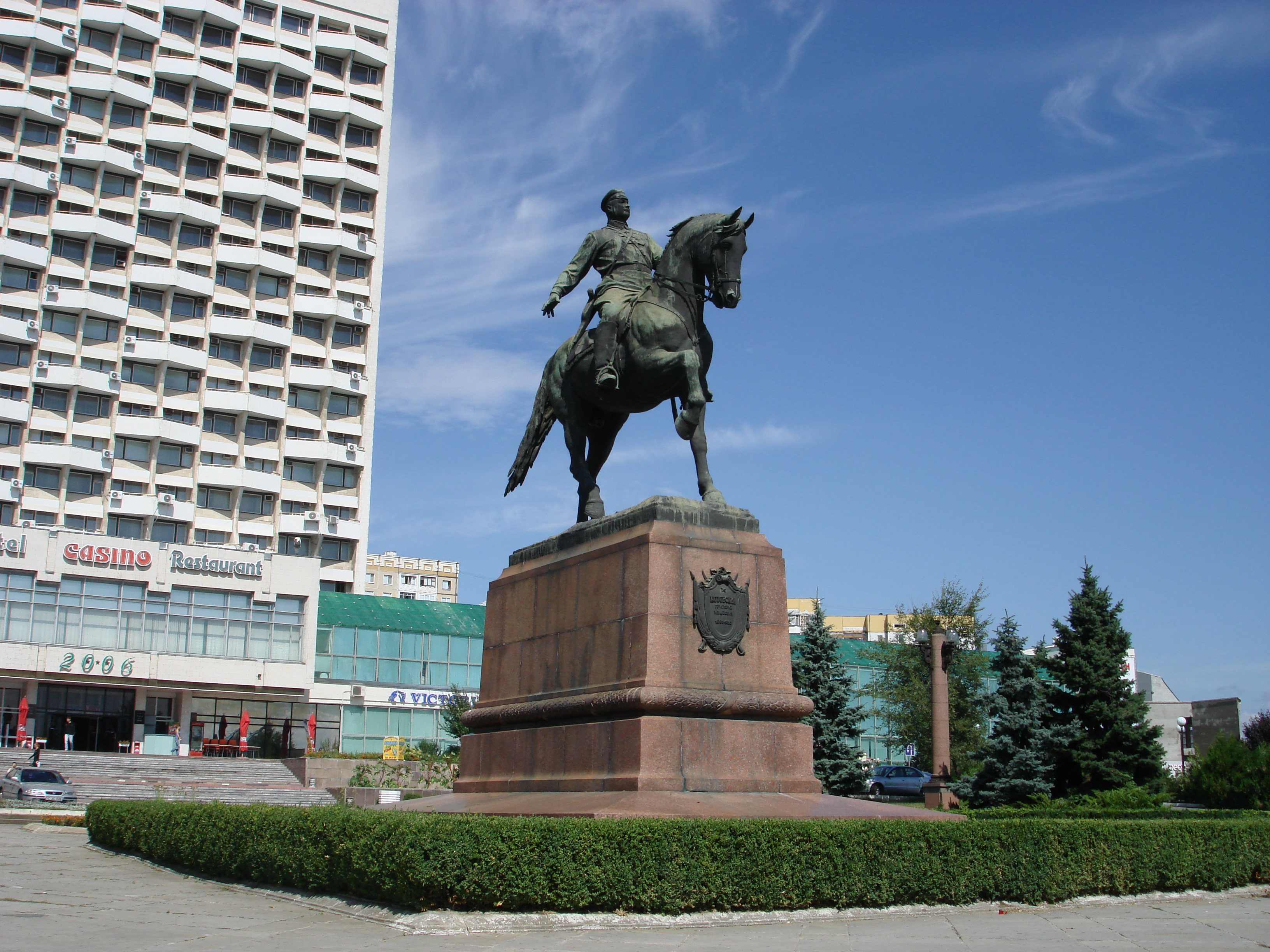 Equestrian statue of Grigory Kotovsky in Chisinau, Moldova